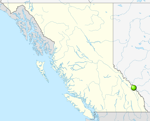 Location of the Burgess Shale Formation. Derived from File:Canada Alberta location map 2.svg by User: Hanhil .